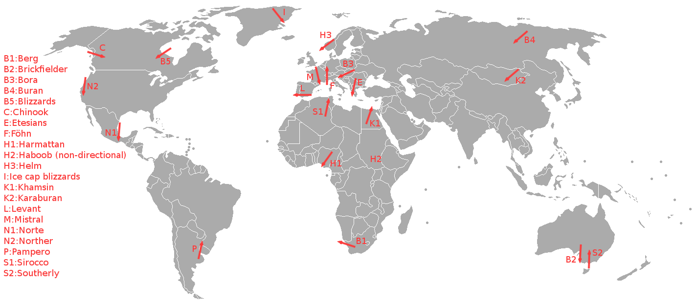 A schematic showing the local winds. The map was based on an image from the book "Wereldwijzer" by Marshall Cavendish.